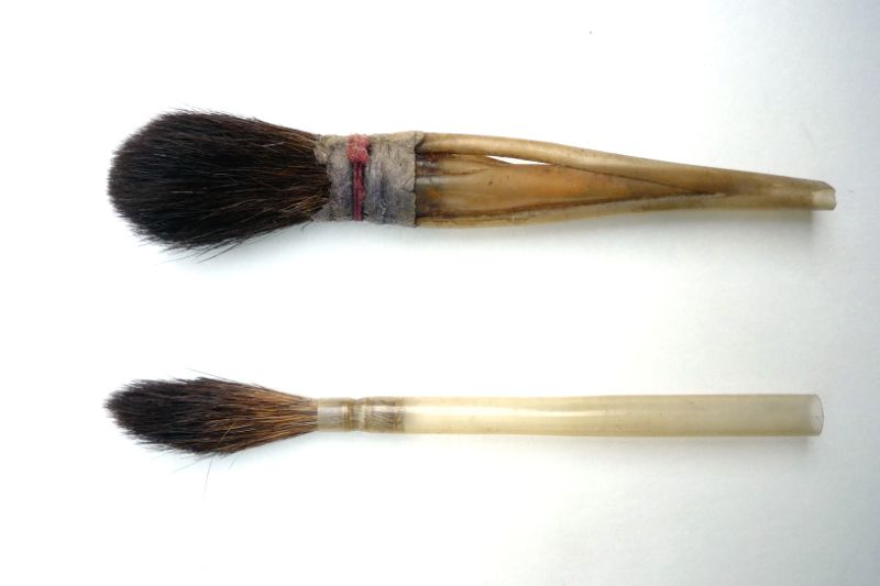 Brush made of sable hair (for cleaning delicate objects; c first half of 20th century)